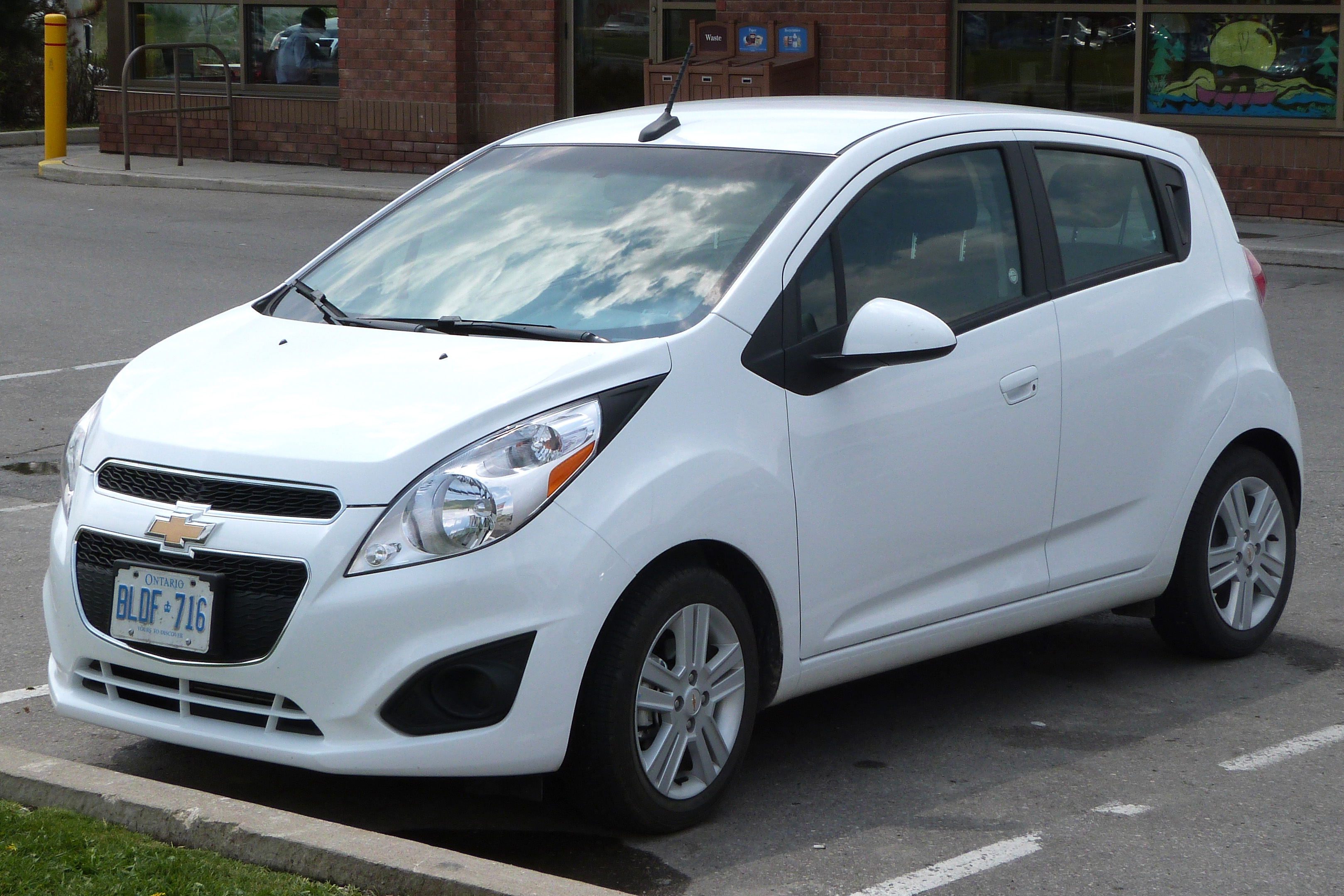 The Chevrolet Spark is a city car, today produced under the Chevrolet brand of General Motors, and originally as Daewoo Matiz. It has been available solely as a five-door hatchback.